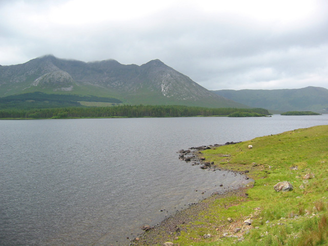 View north west across Lough Inagh towards the Twelve Bens. View from an inlet on the east bank where the R344 runs beside the lough. The mountains in the distance are Bencorr (Binn Chorr; left) and Bencorrbeg (Binn an Choire Bhig; right)